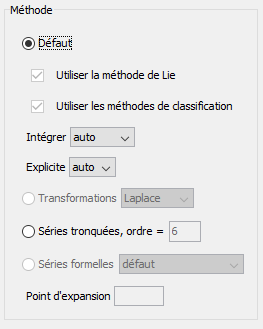 Sélection de la méthode d'analyse par résolution numérique.